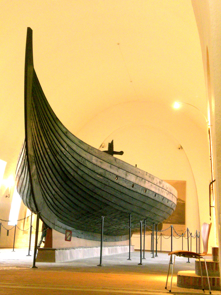 Gokstad Viking ship at Kulturhistorisk museum, Oslo. Found in 1880, this was built around 890 AD, and was used as a grave ship for a Viking chieftan. Viking ship)&t=h See where this picture was taken. [?]